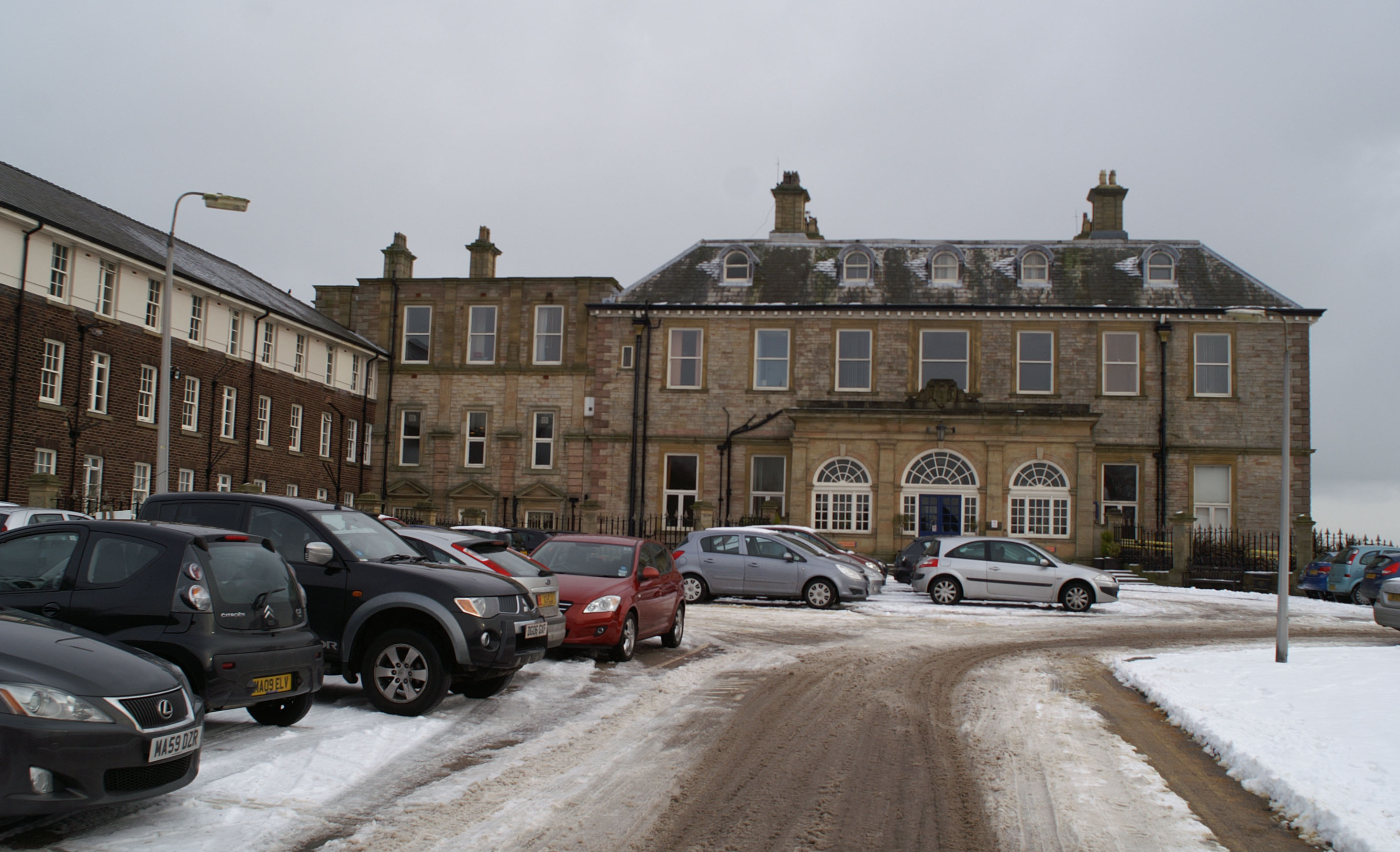 Part of the Wrightington, Wigan & Leigh Health Trust. It was opened in 1932 as a Tuberculosis Hospital, out in the country for fresh air and isolation. In the 1960s it became famous for pioneering hip replacement operations, which are still carried out there.